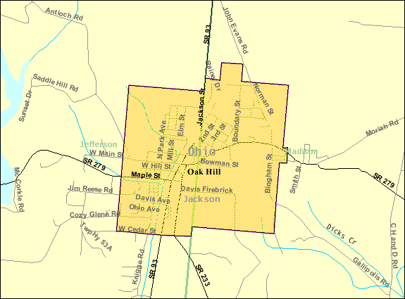 Map of Oak Hill, a village in Jackson County, Ohio, United States, with its boundaries at the time of the 2000 census.